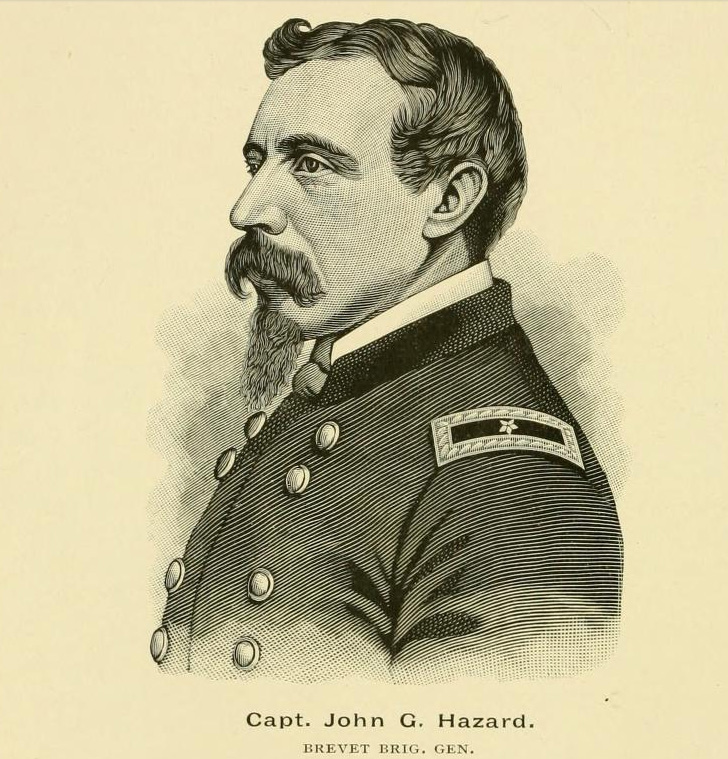 Captain John G. Hazard (Battery B, 1st Rhode Island Light Artillery)